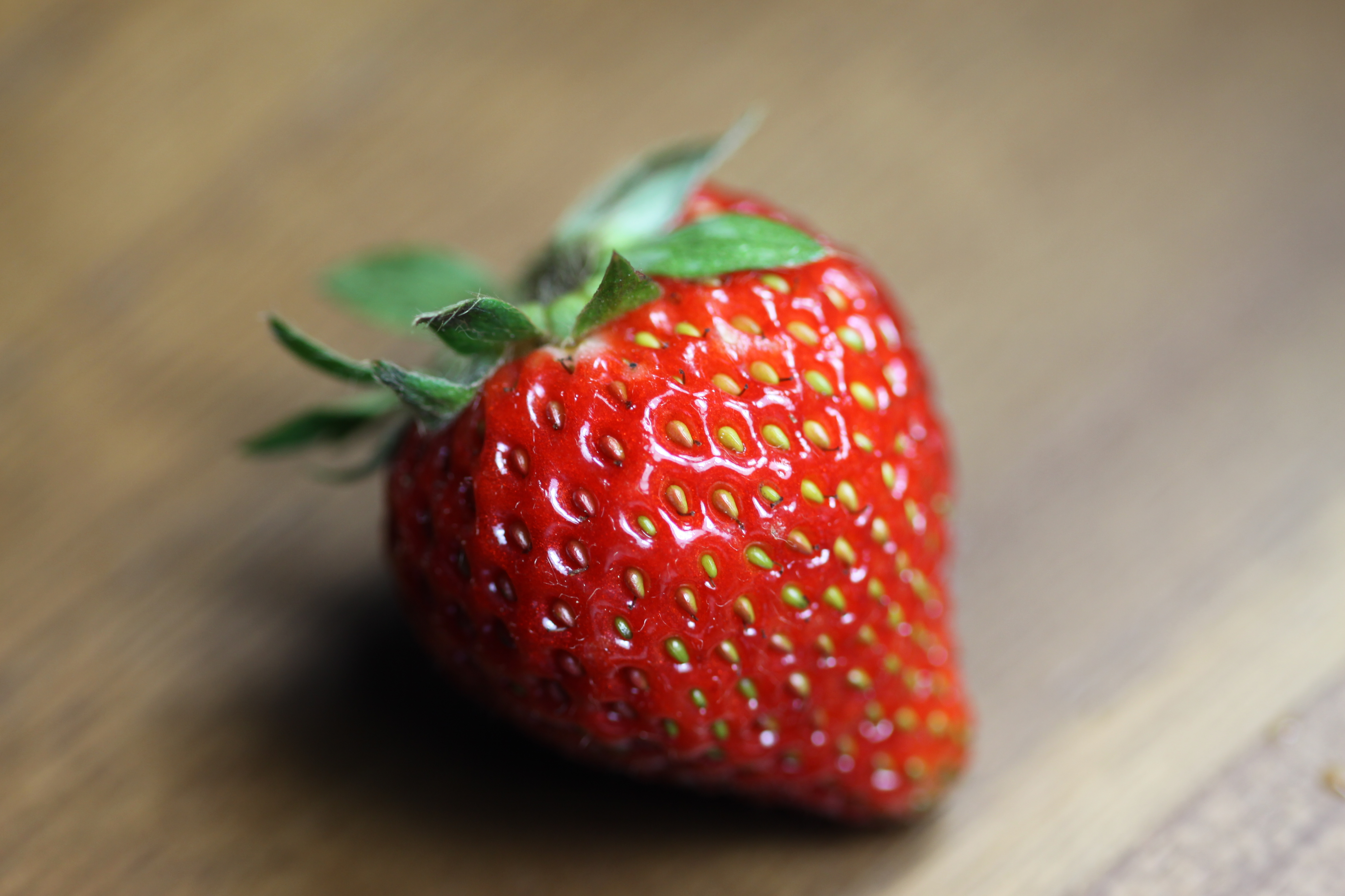 Strawberry is a fruit instead of love. This photo has been taken in the country: Thailand